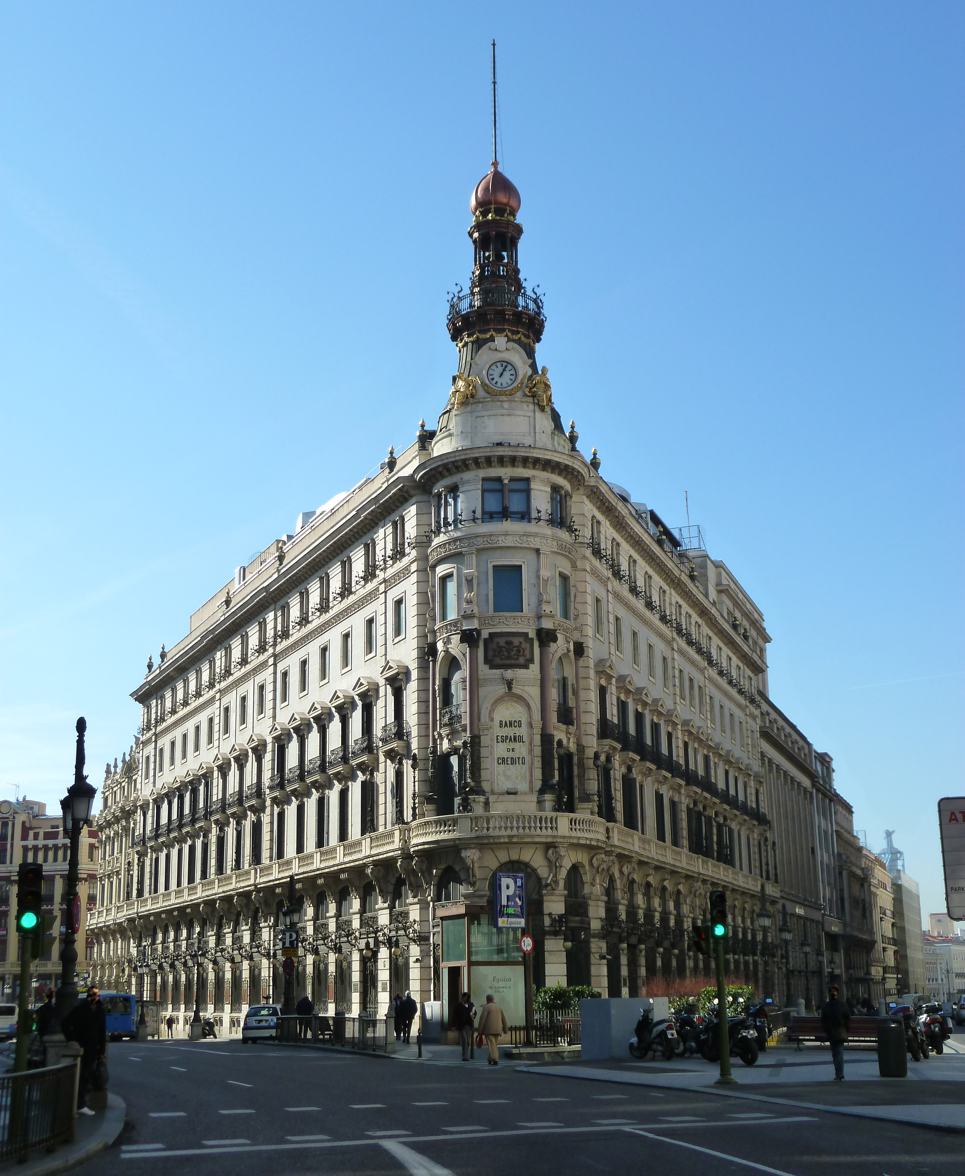 View of Palacio de la Equitativa in Madrid, Spain. Seen from Calle de Alcalá (street).